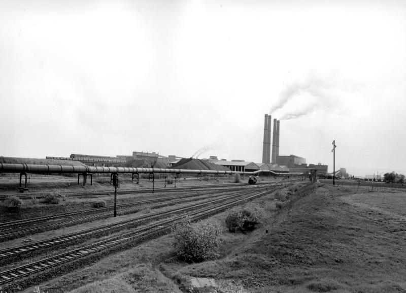 At the sinter plant, the finely-ground wet concentrate is sintered with coke breeze. Pig iron is smelted from the agglomerated sinter. The sinter plant is connected to the smelter by an extensive rail network.